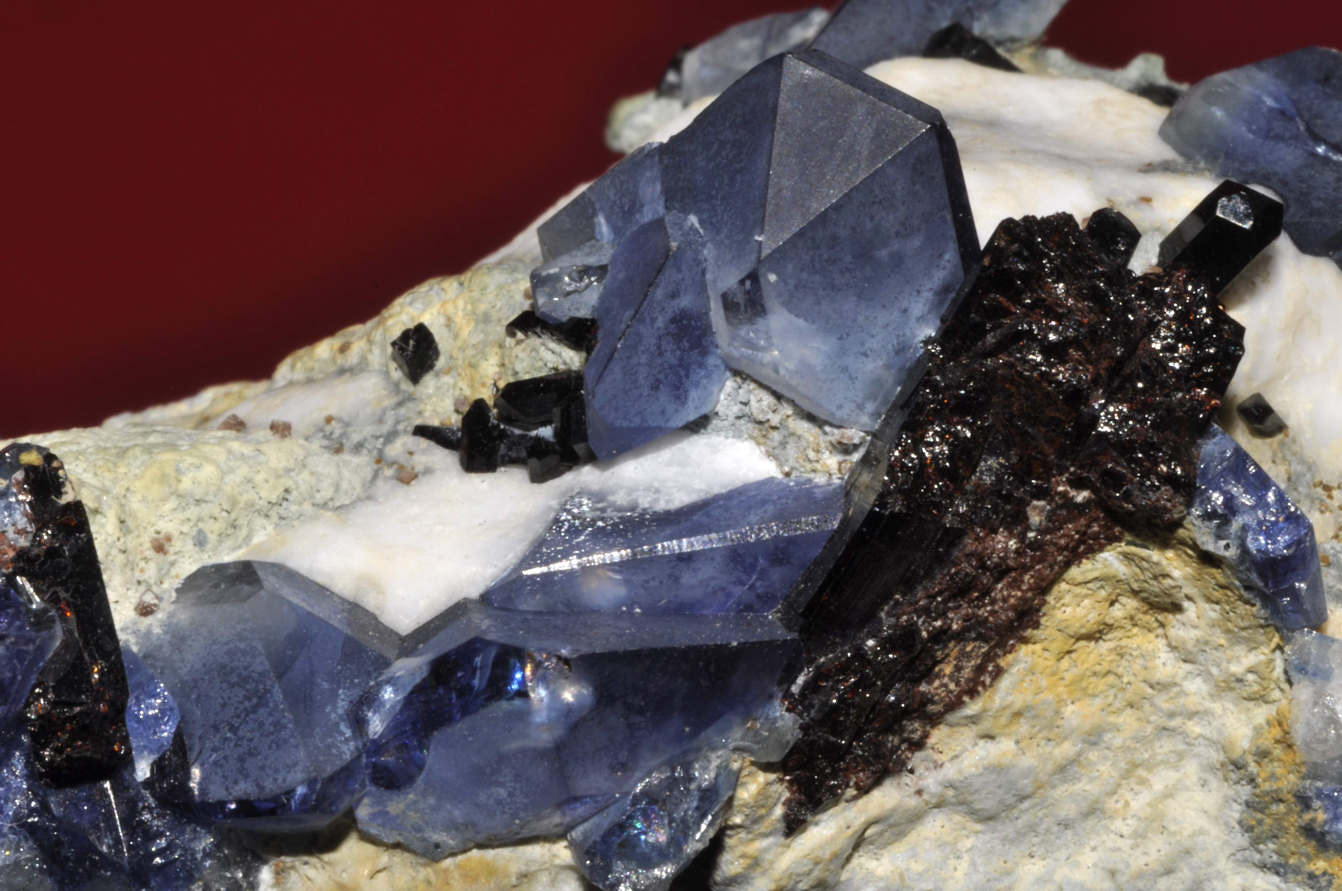 benitoite, neptunite, joaquinite-(Ce), natrolite : Dallas Gem Mine (Benitoite Mine ; Benitoite Gem Mine ; Gem Mine), Dallas Gem Mine area, San Benito River headwaters area, New Idria District, Diablo Range, San Benito Co., California, USA